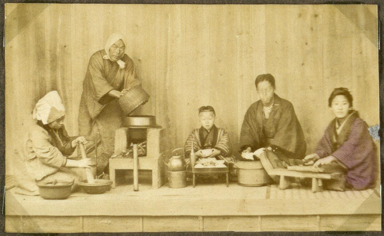 Photograph that is a part of a collection which in 1888 were bought by the painter Karl Madsen. No. es_b_00639b